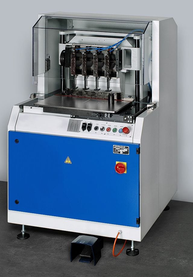 Papierbohrmaschine